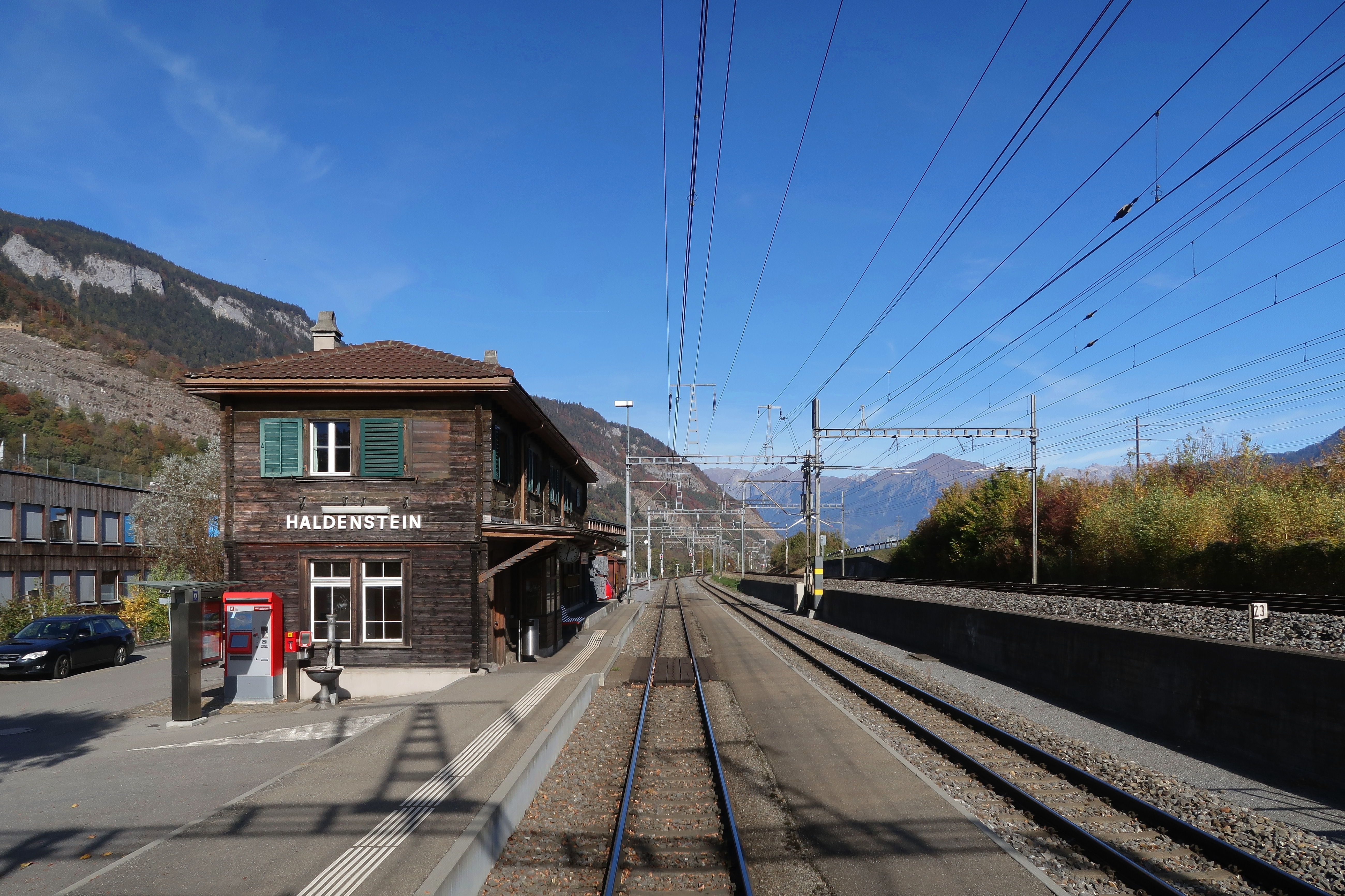 A small unattended station north of Chur. Trains stop on request. The station looks still like on historic photos. I don't know when it was built. The railway line was opened in 1896. Only a loading ramp at track 1 was broken off and the platform was raised. The tracks on the right above belong to the SBB. Switzerland, Oct 25, 2018.